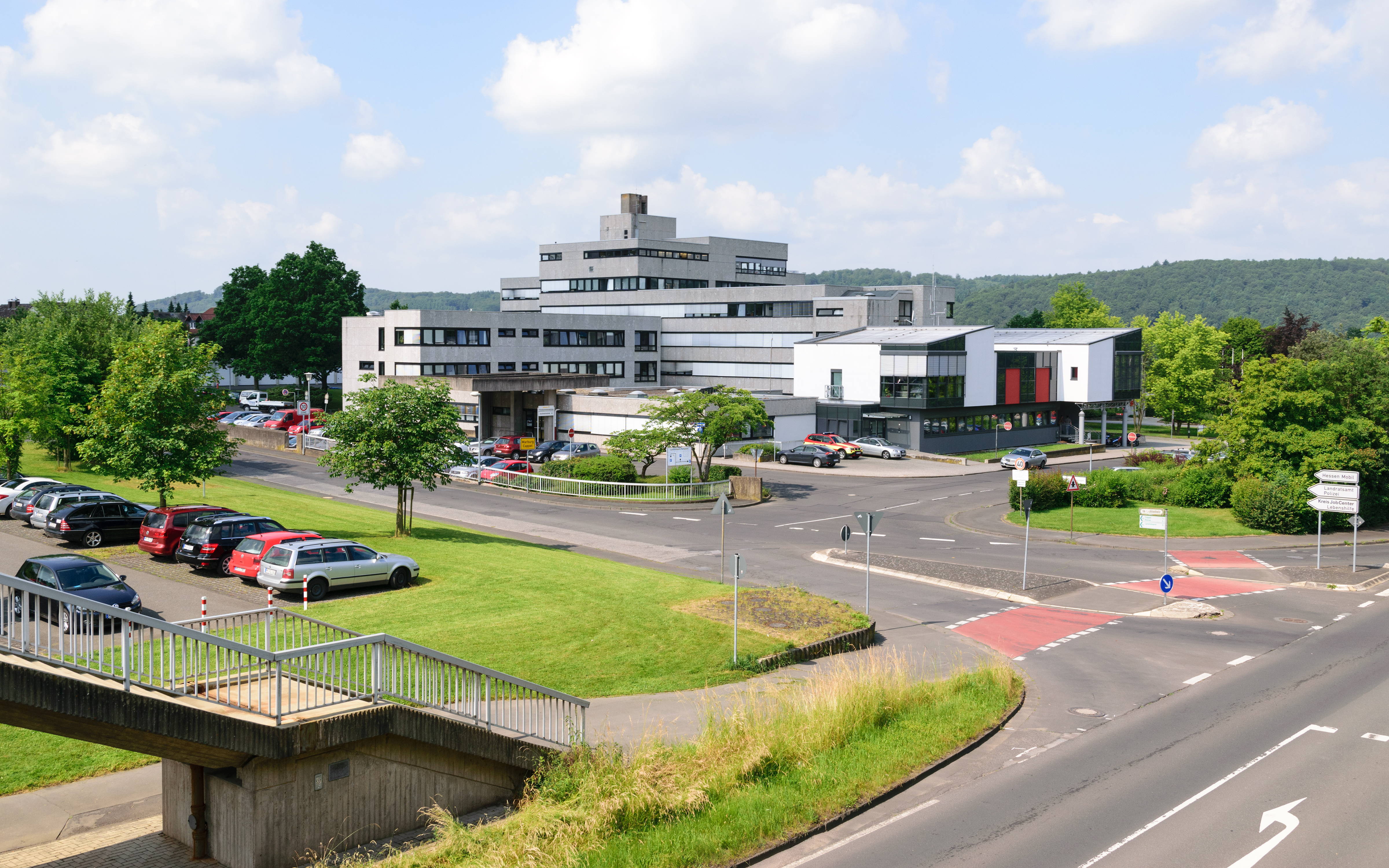 Local government building of district Marburg-Biedenkopf in Cappel, Marburg